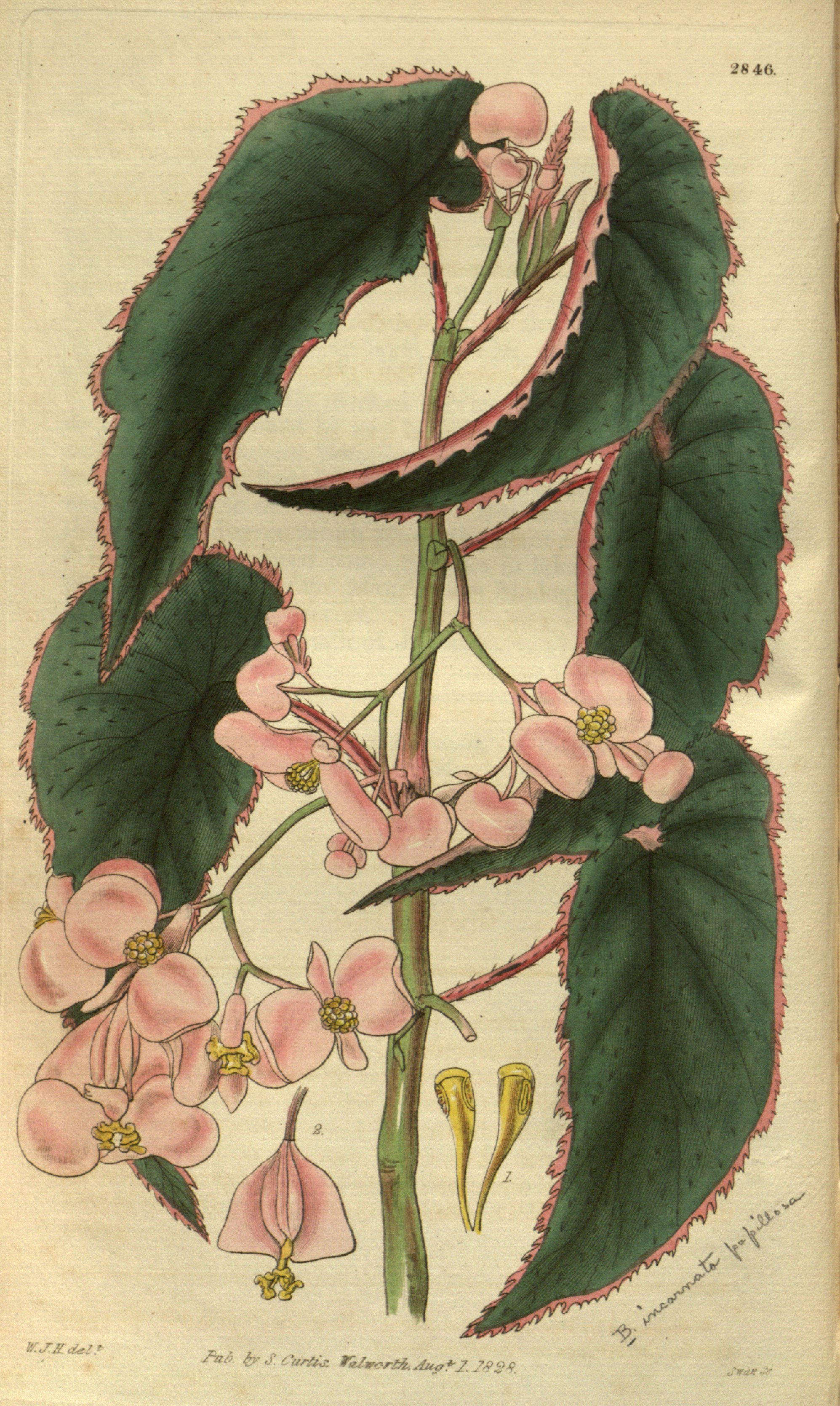 Begonia incarnata as Begonia papillosa Graham, Bot. Mag. 55: t. 2846 (1828).